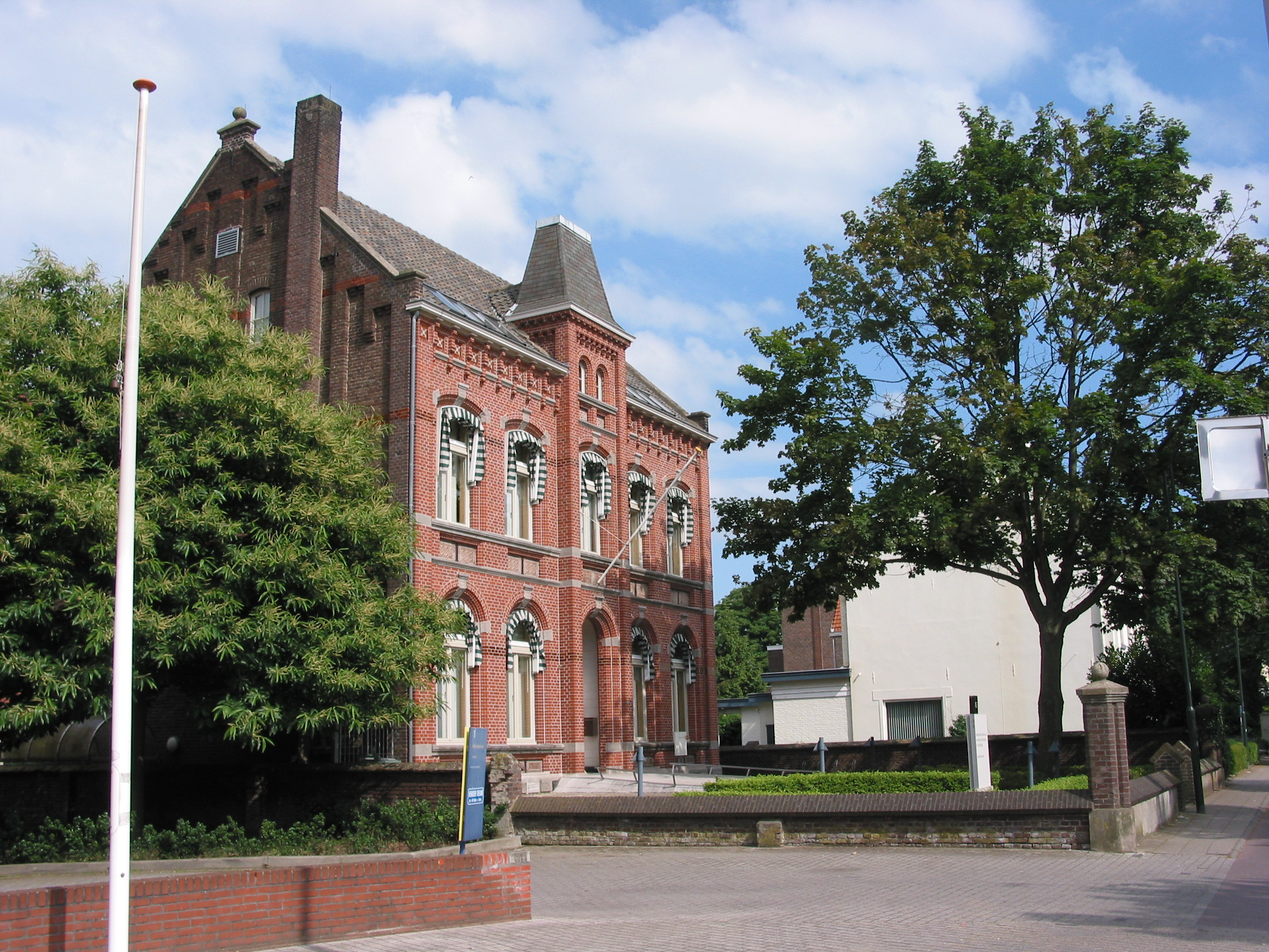 Netherlands Institute for Forensic Psychiatry and Psychology, Kapellerlaan 15, Roermond.